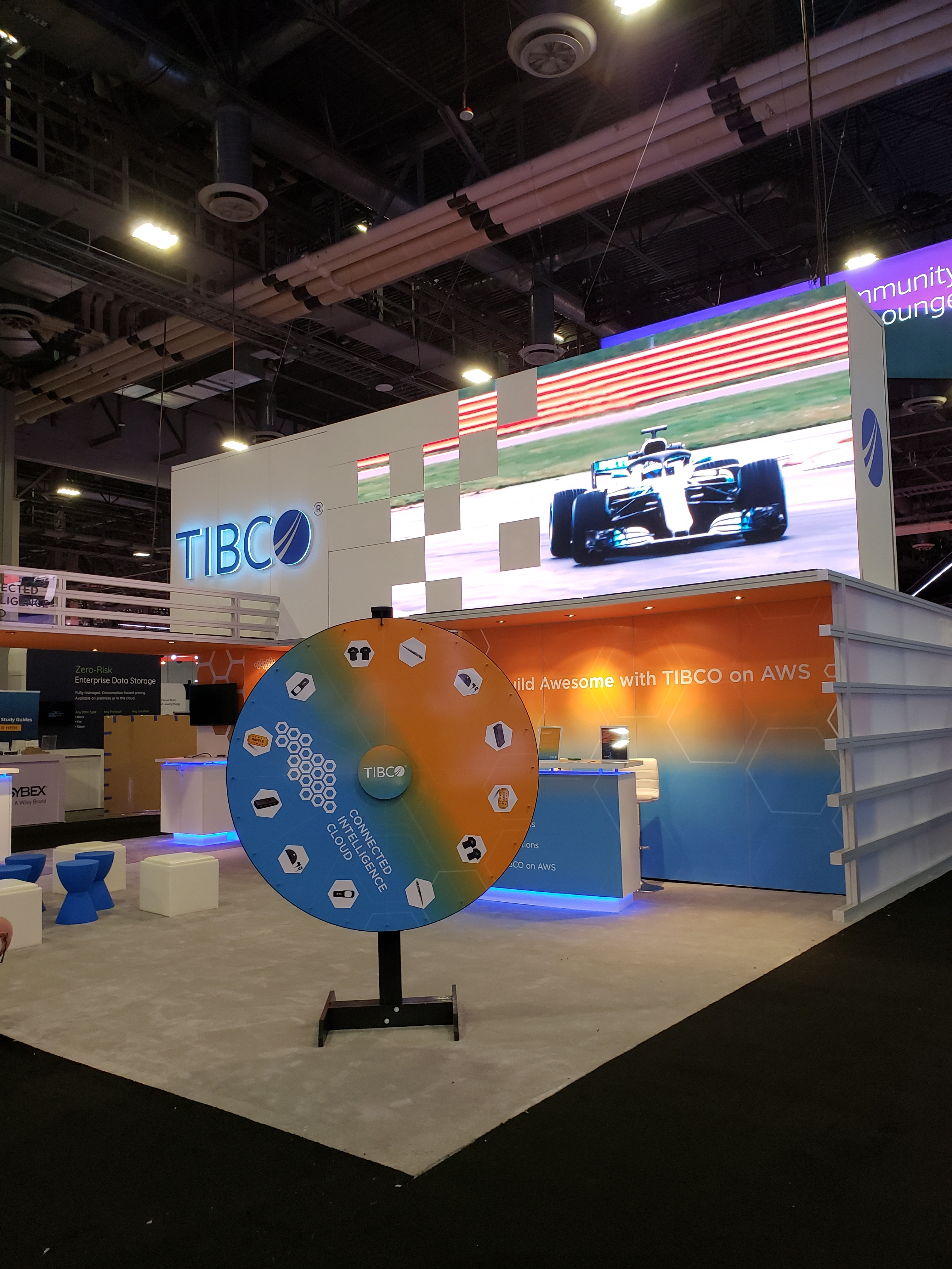 TIBCO Booth at AWS re:Invent 2018